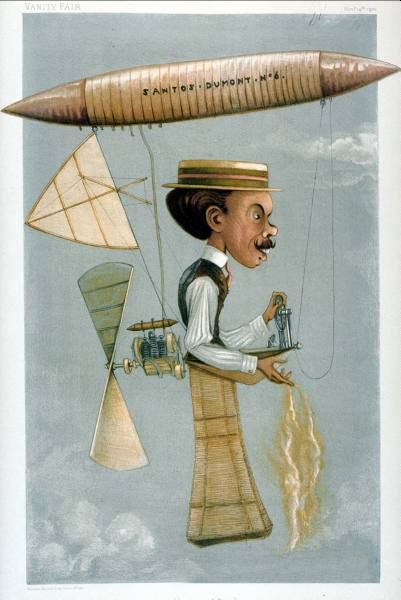 Caricature of Alberto Santos-Dumont (1873-1932), Brazilian aviation pioneer. Caption read "the Deutsch Prize".